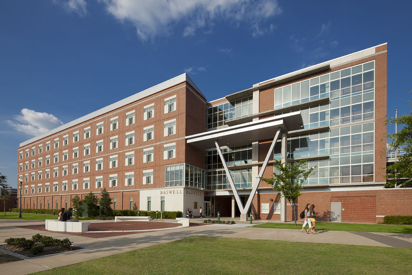 Baswell Hall on the Arkansas Tech University campus